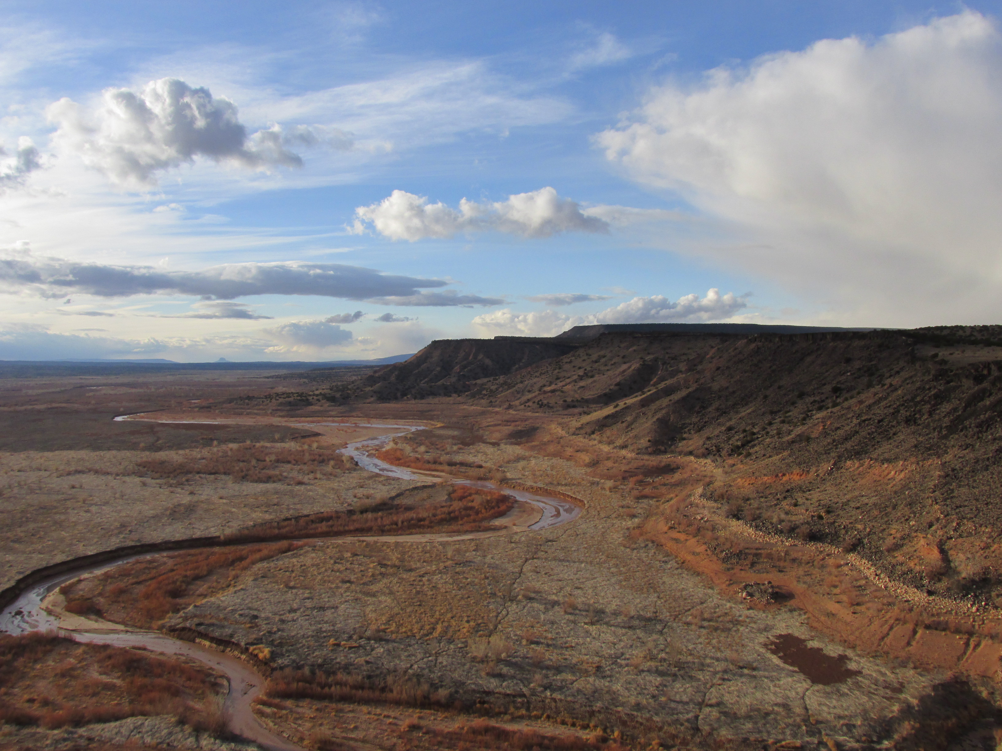 Jemez River, Santa Ana Pueblo New Mexico